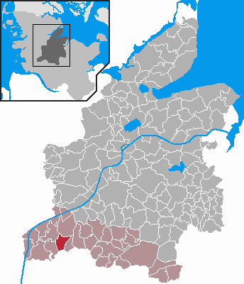 Locator maps of municipalities in Schleswig-Holstein - District Rendsburg-Eckernförde